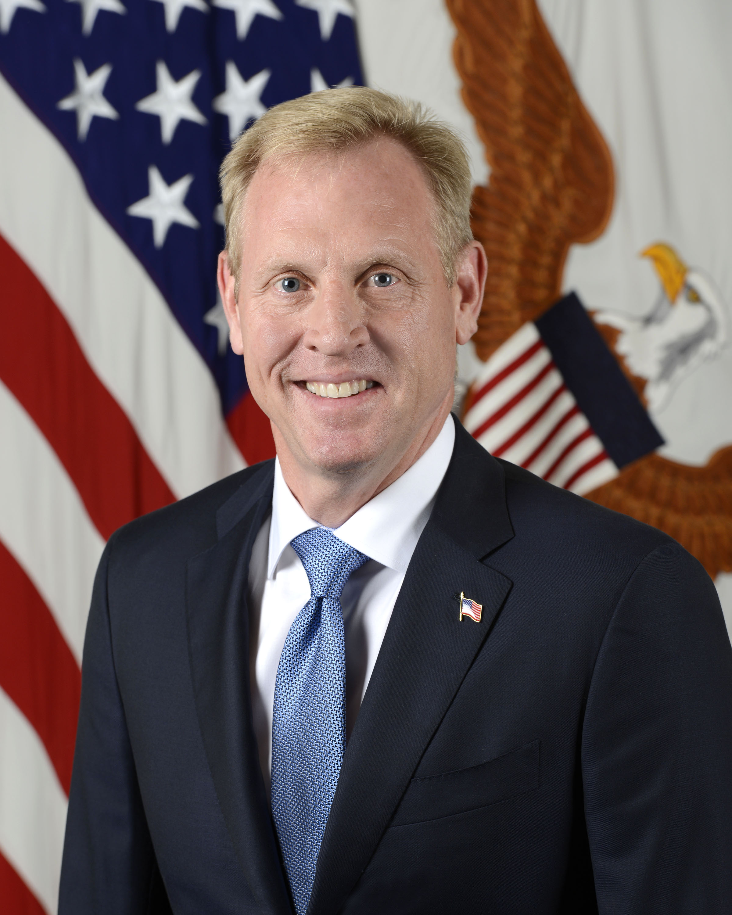 Patrick M. Shanahan, Deputy Secretary of Defense, poses for his official portrait in the Army portrait studio at the Pentagon in Arlington, Virginia, July 19, 2017.